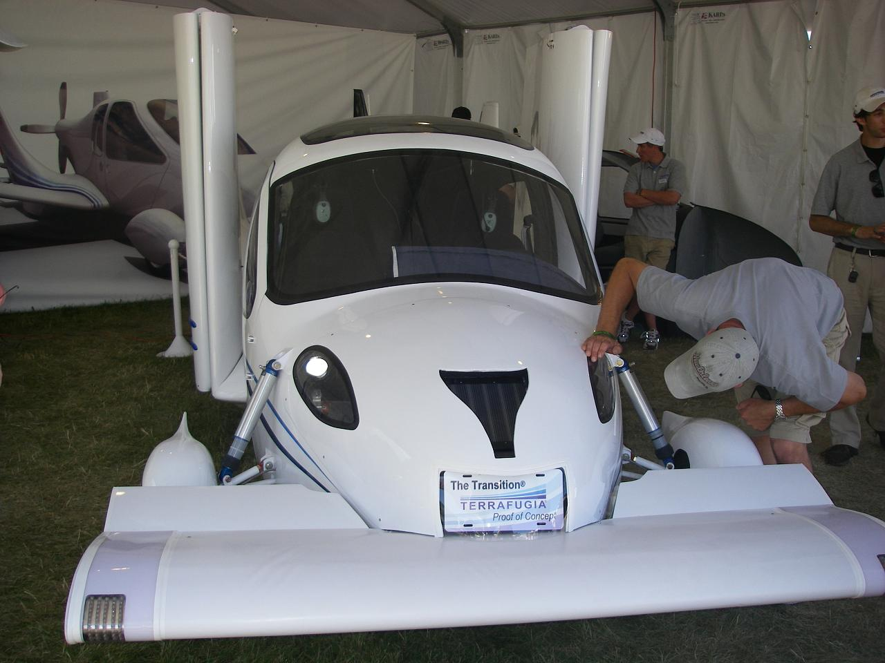 Terrafugia Transtion® prototype on display at Oshkosh 2008.